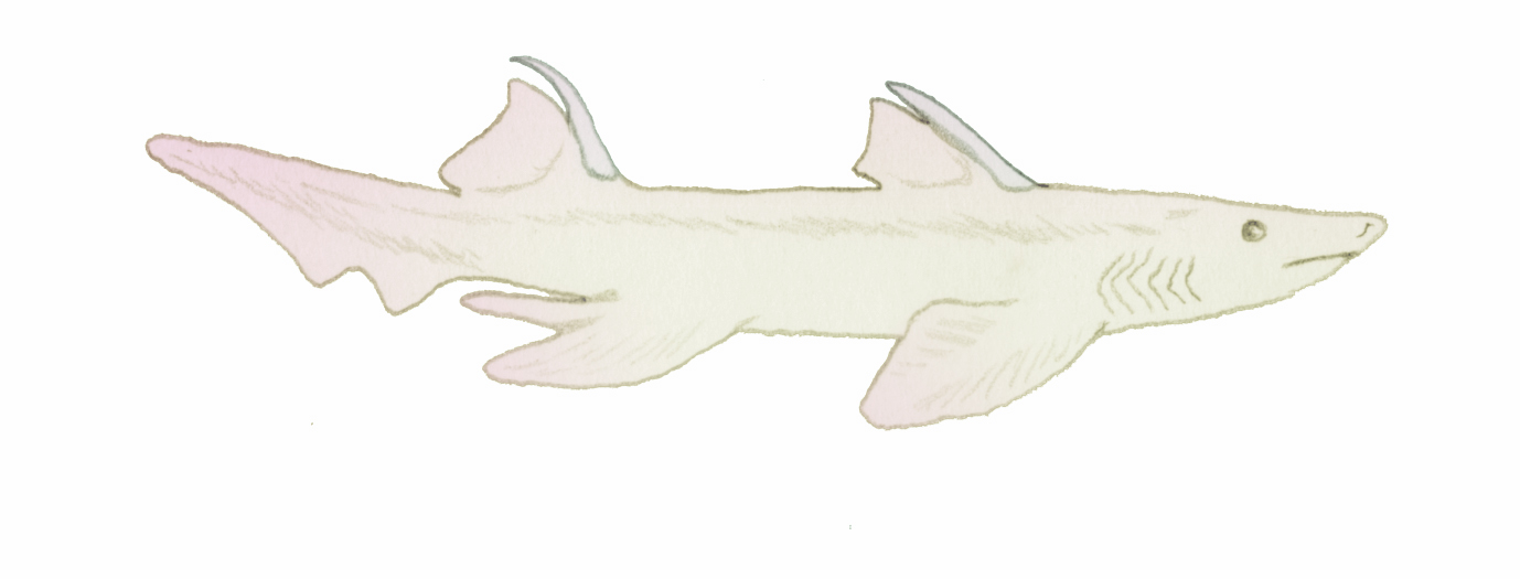 Restoration of Tristychius, an extinct shark